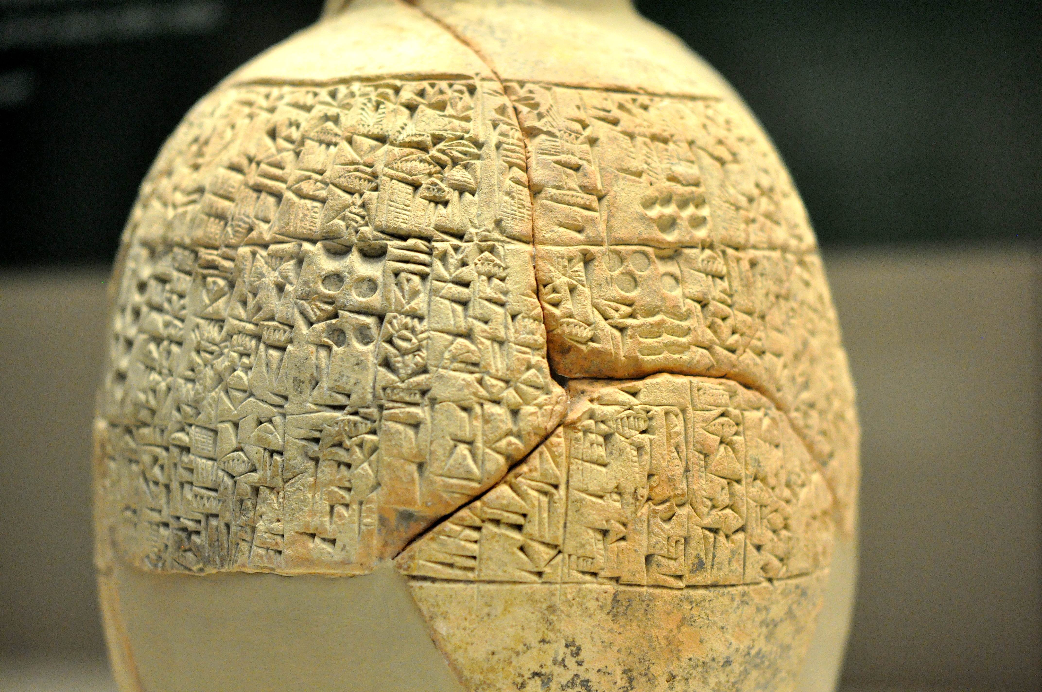 This cuneiform text on this vessel gives the city of Umma's account of its long-running border dispute with Lagash. It reads "This is the boundary according to monument of (the god) Shara". Early Dynastic Period III, circa 2350 BCE. From Umma, Southern Mesopotamia, modern-day Iraq. The British Museum, London.